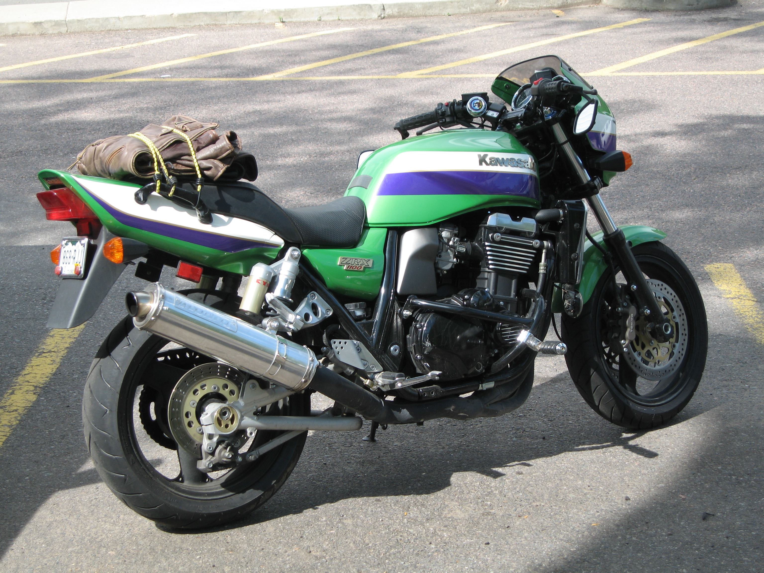 Kawasaki ZRX1100. The Great Colorado Road Trip of '09